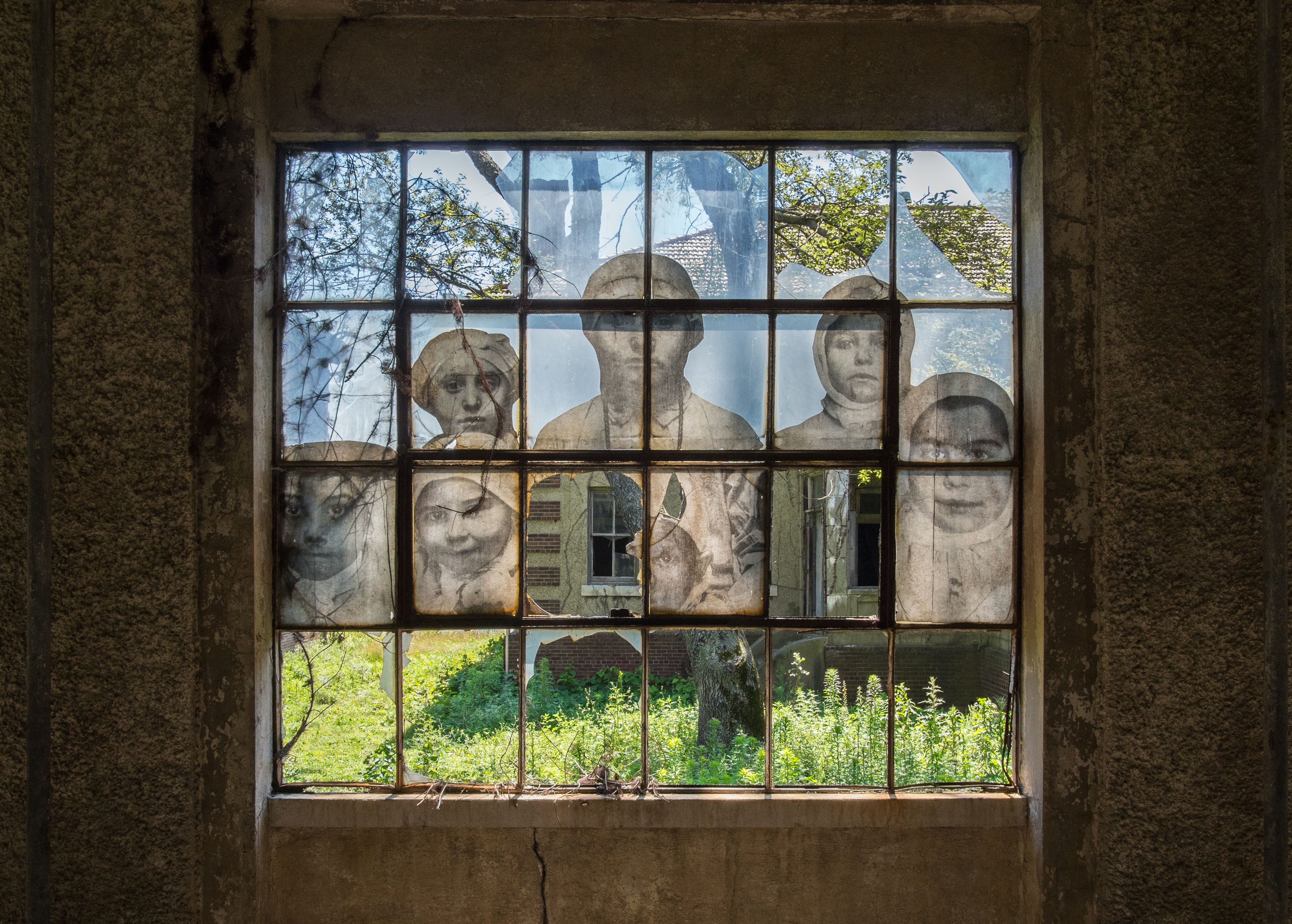 A window in the Ellis Island Immigrant Hospital, closed since 1930. The photograph is one from the early 20th century, when the hospital was operational. In 2014 the French artist JR put up large reproductions of such photographs around the hospital grounds.